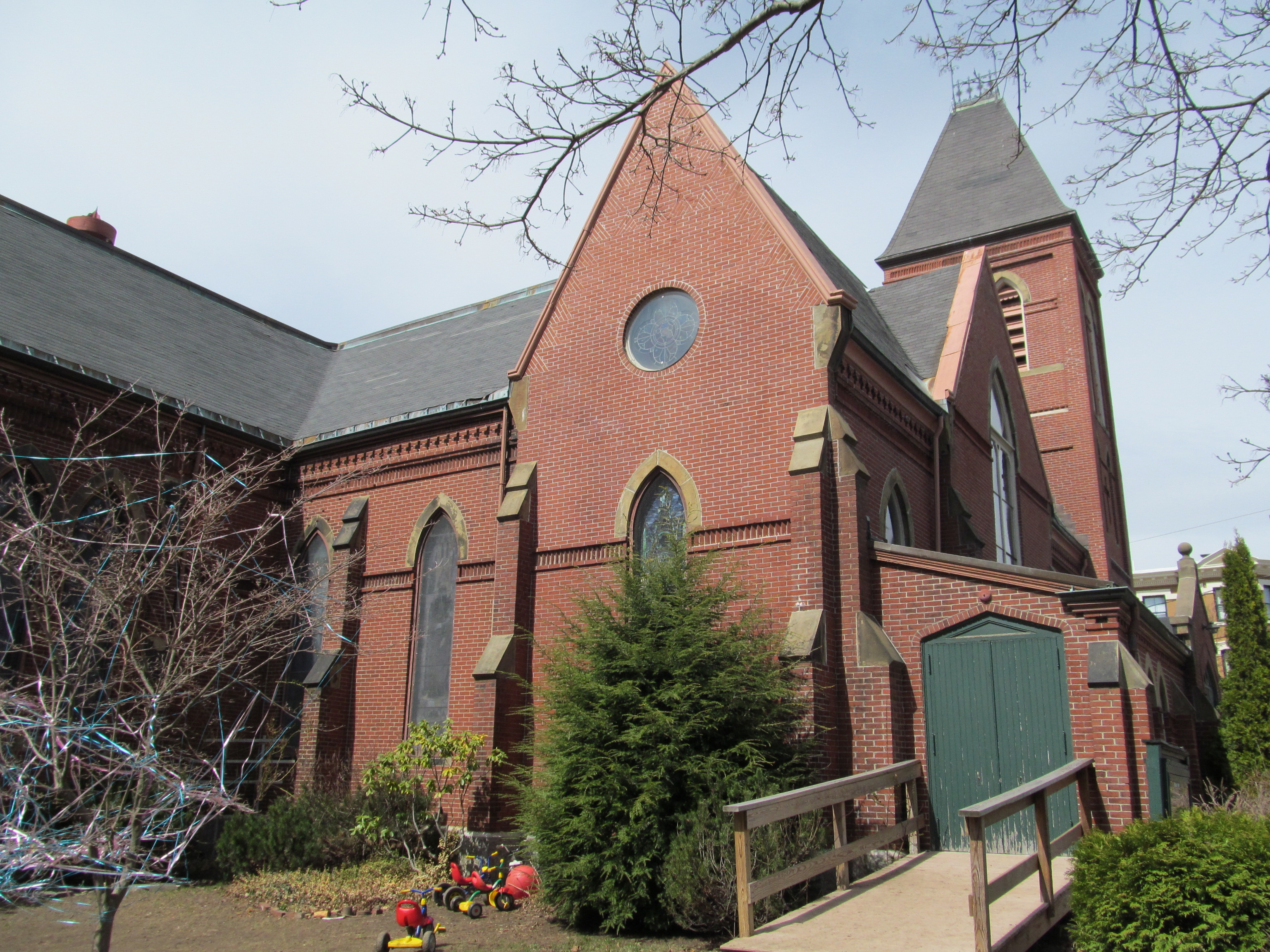 Williston-West Church, Portland Maine